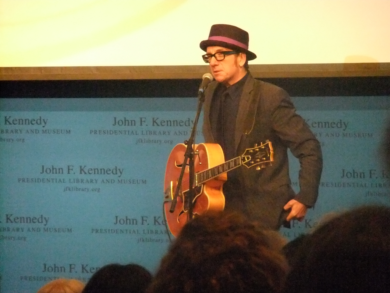 Elvis Costello honoring music legends Chuck Berry and Leonard Cohen, who were the recipients of the first annual Pen Awards for songwriting excellence-at the JFK Presidential Library, Boston, Mass. on Feb. 26, 2012.